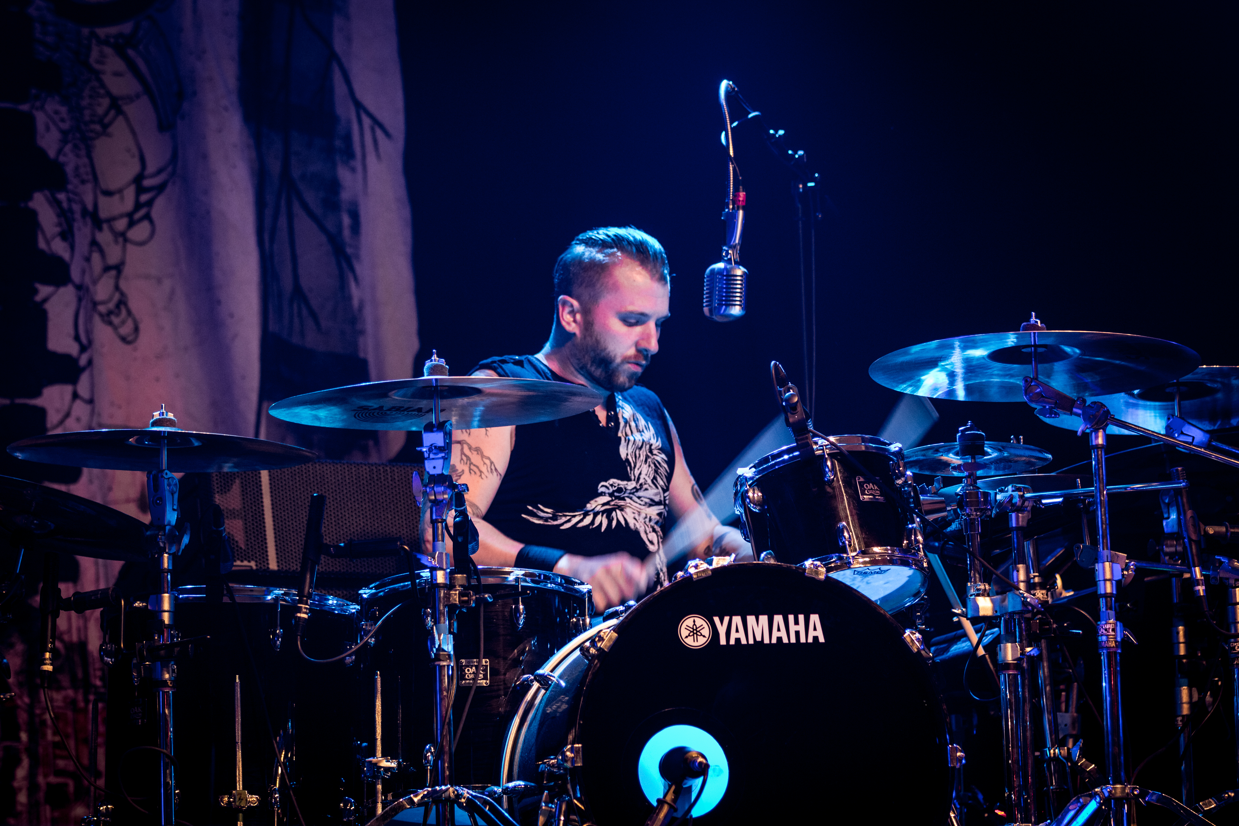 Three Days Grace - Rock am Ring 2015